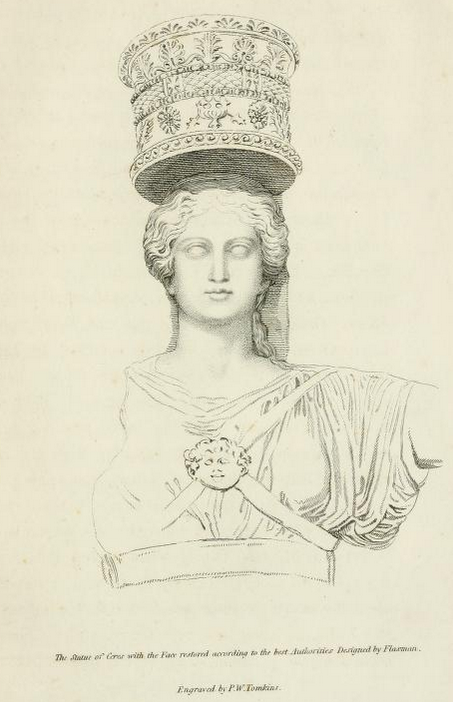 Caryatid of the Lesser Propylaea at Eleusis, engraved by P. W. Tomkins